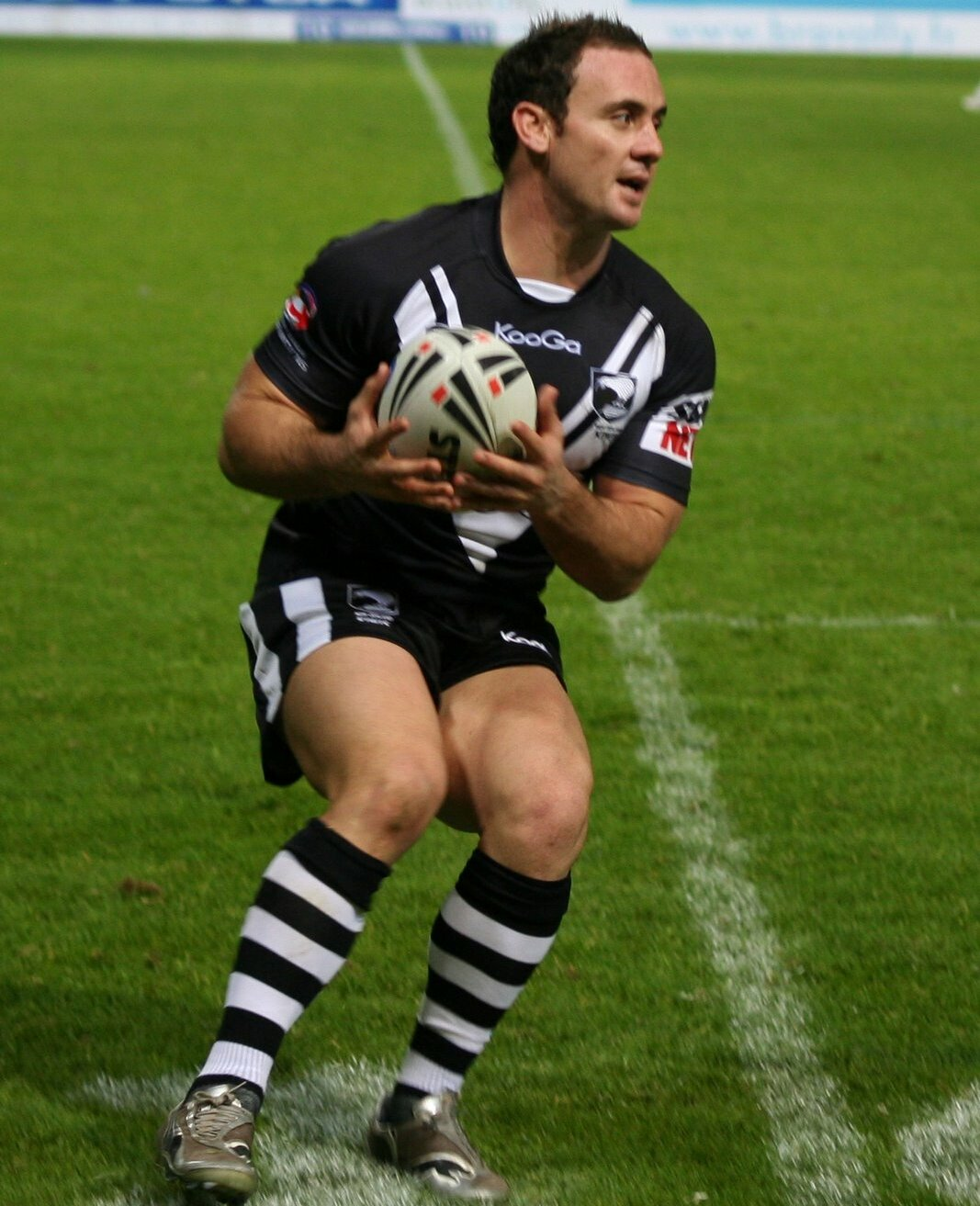 Lance Hohaia, New Zealand rugby league player.